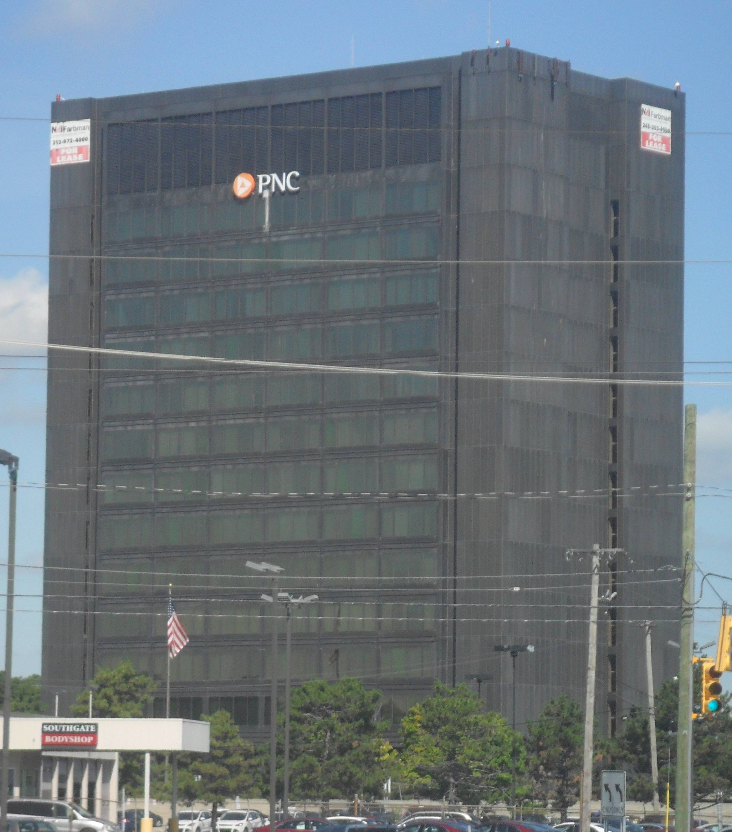 The PNC Southgate Tower in Southgate, Michigan. Taken by me on August 28, 2014.